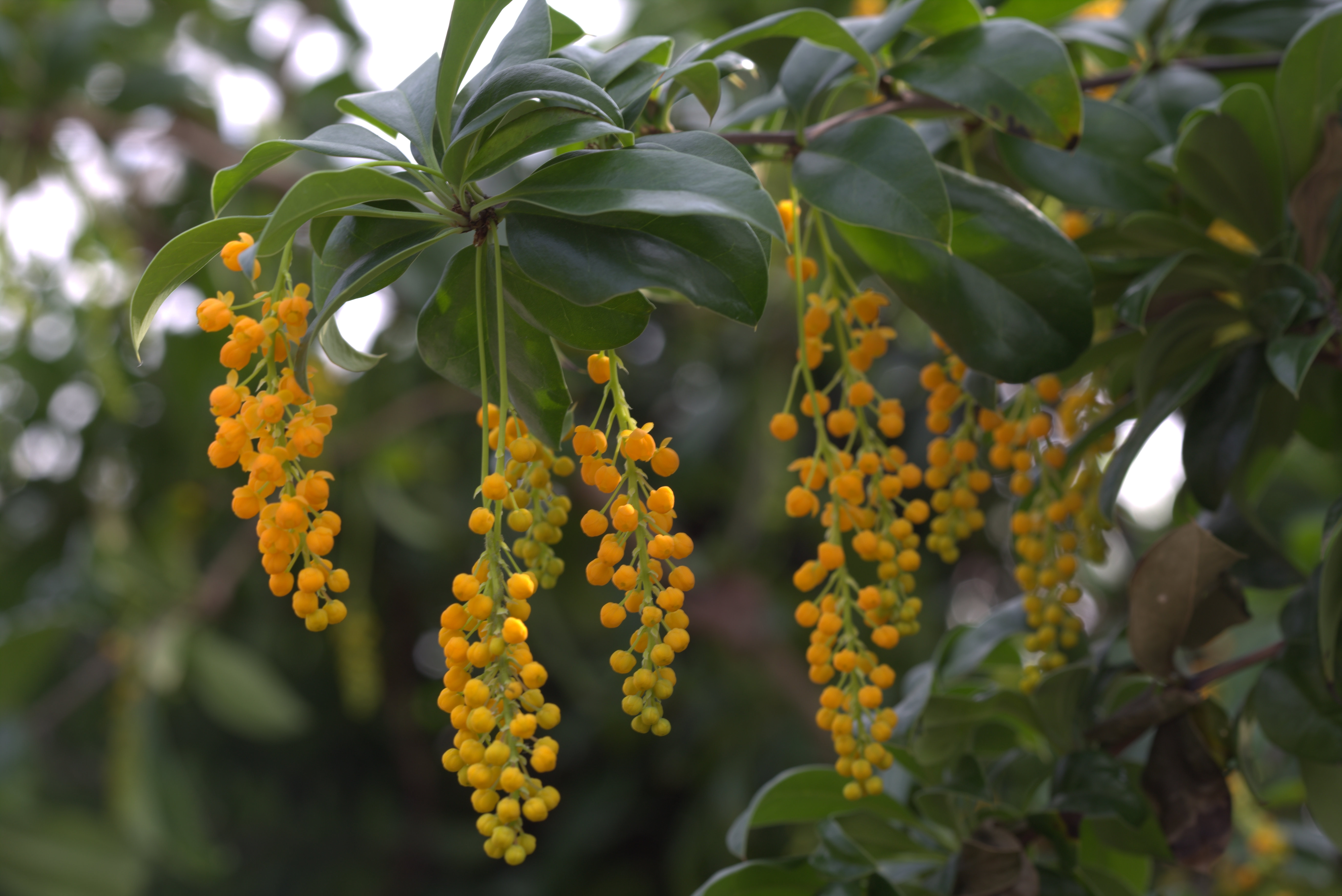 Berberis valdiviana in Gotheburg Botanical Garden in 2015. Plant id: 1984-3706 p G -- Fox. D